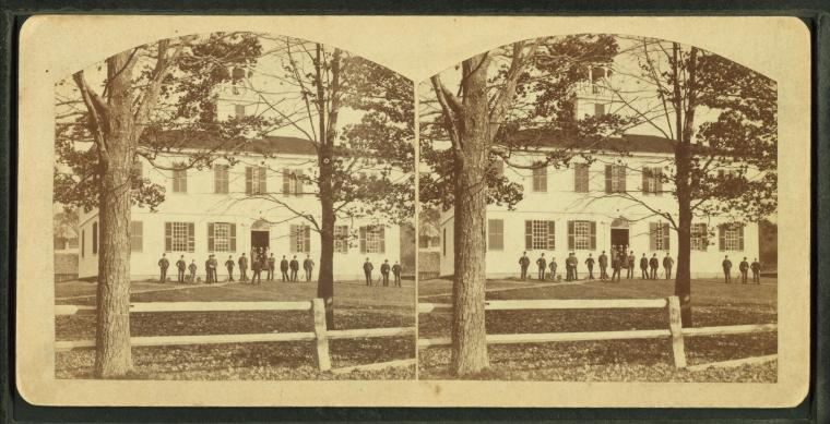 Stereoscopic photograph of Gilmanton Academy, Gilmanton, Belknap Couunty, New Hampshire, circa 1869–1880.